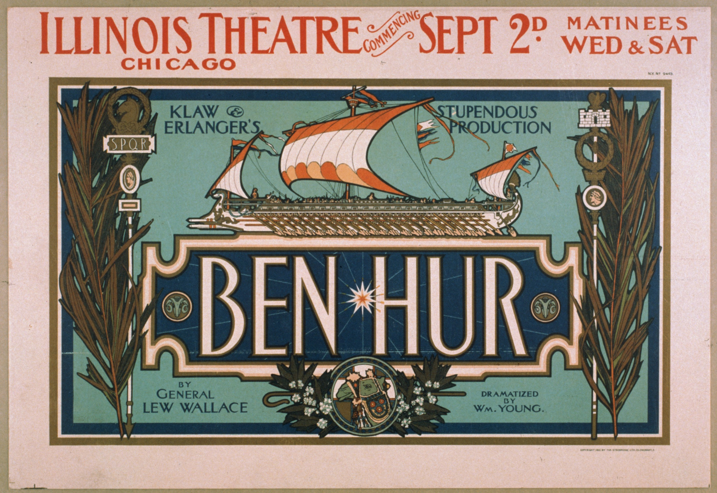 Title: Ben-Hur Klaw & Erlanger's stupendous production. Abstract: 1 print : color lithograph ; sheet 24 x 35 cm. (poster format)